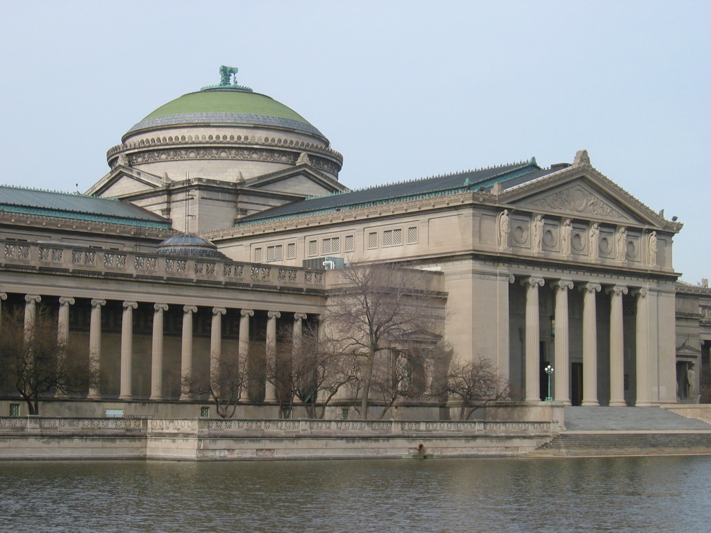 The Museum of Science and Industry, Chicago, Illinois. Photograph taken 9 April 2006. © Jeremy Atherton, 2006.